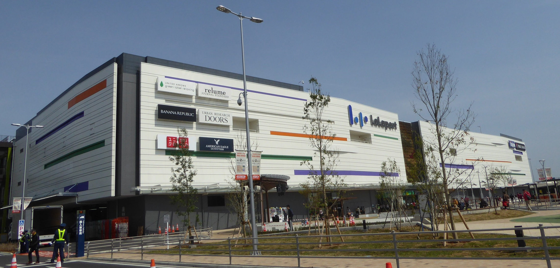 LaLaport Fujimi shopping mall in Fujimi, Saitama, Japan